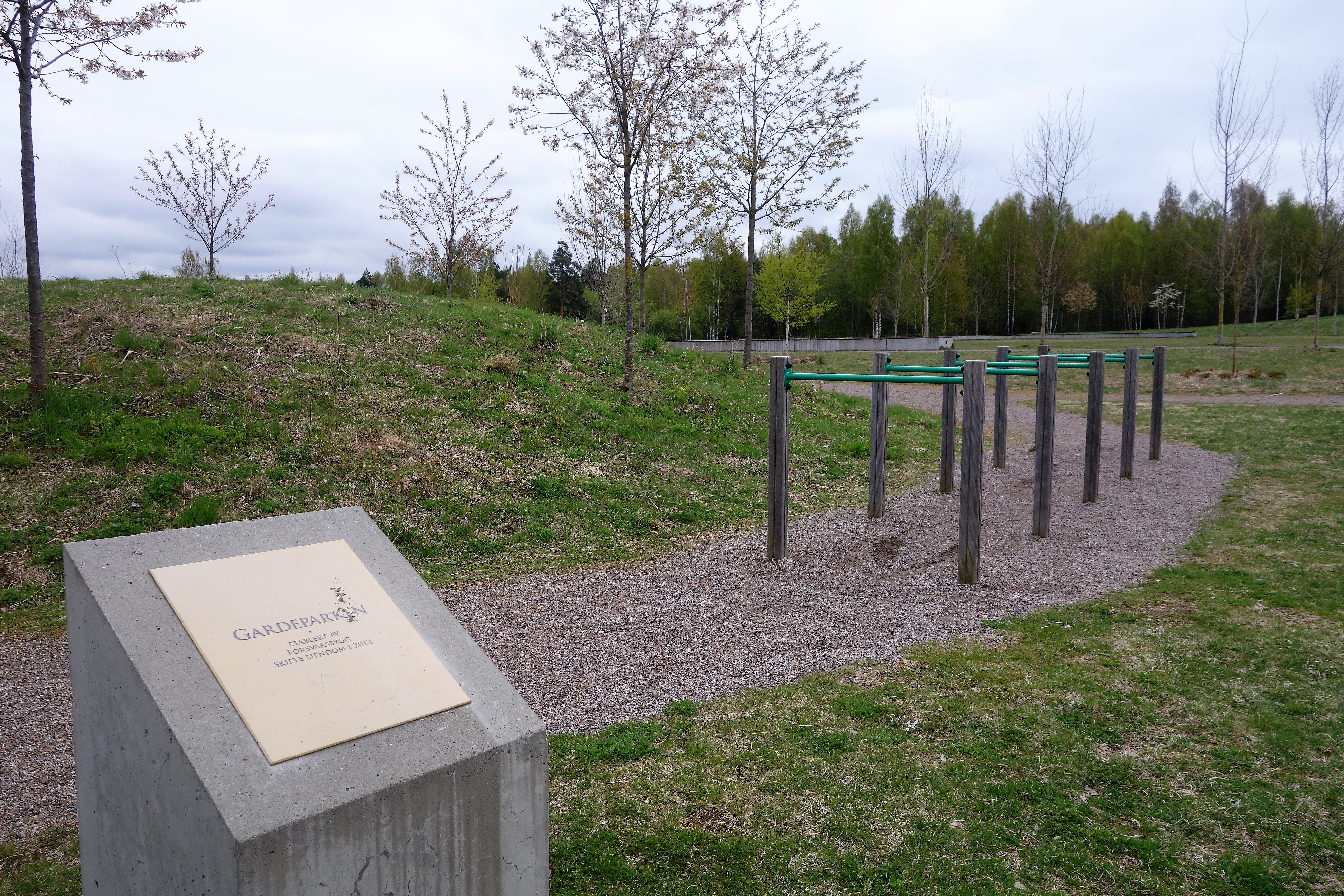 Gardeparken, public park located by the Huseby leir, headquarters of His Majesty the King's Guard.